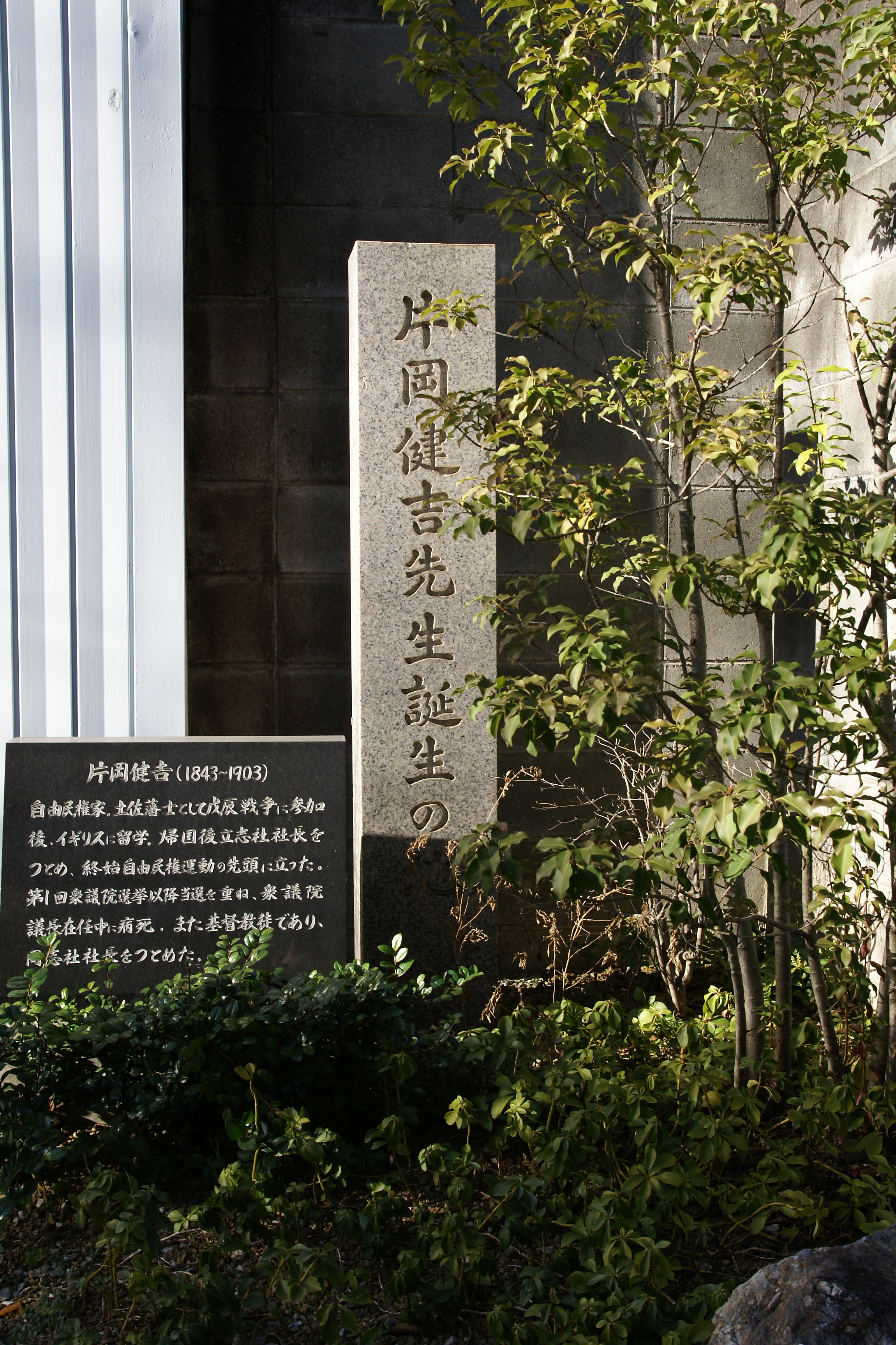 Kenkichi Kataoka's Birthplace in Kochi, Kochi prefecture, Japan